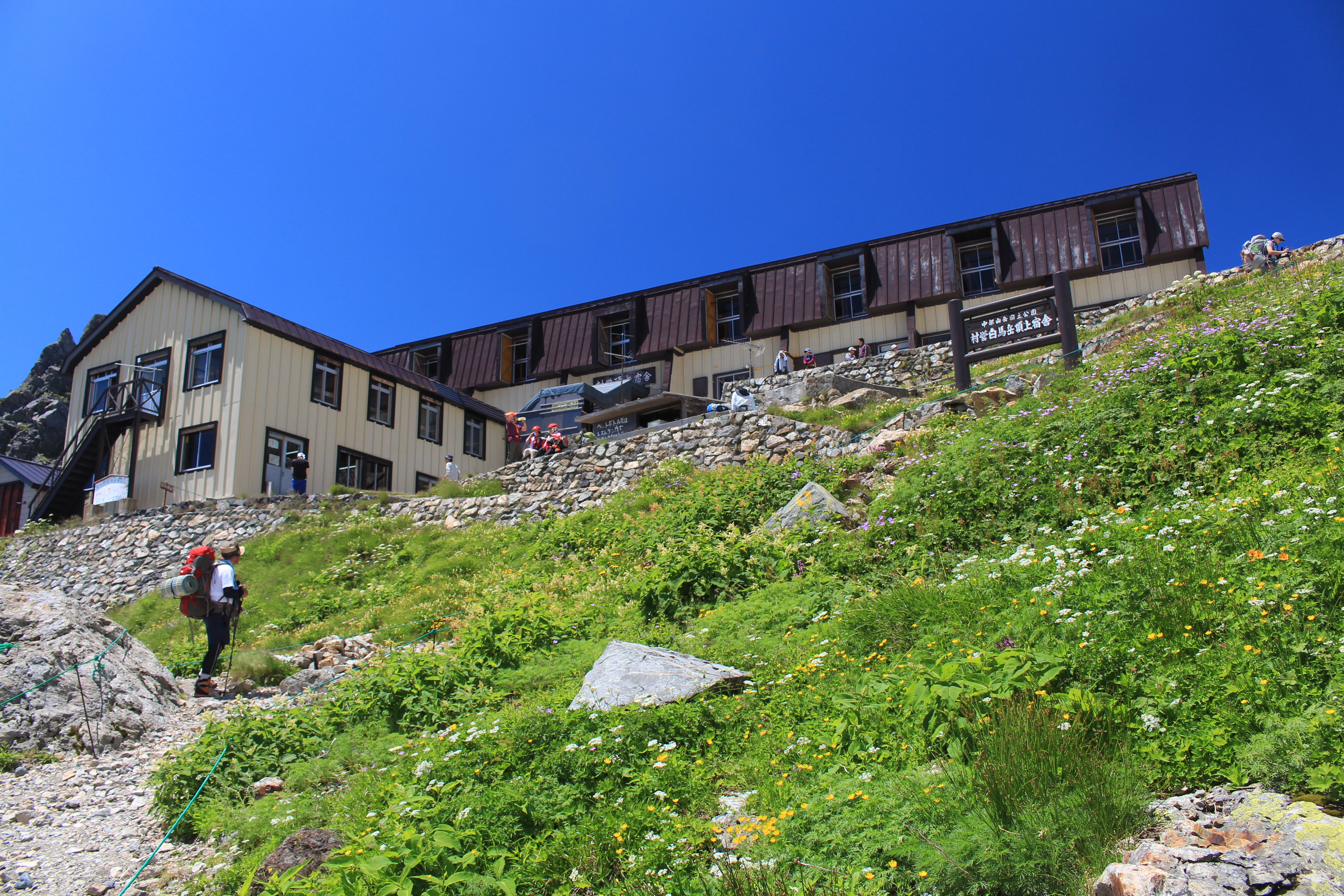 Hakubadake Chojoshukusha, and alpine plant, in Mount Shirouma, Hakuba, Nagano prefecture, Japan.